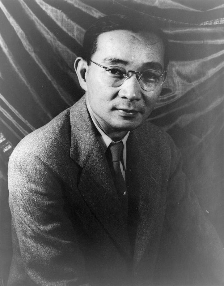 Lin Yutang